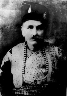 Golub Babić, Serbian revolutionary in Herzegovina. Low-res copy of scanned photo taken before his death (1910).